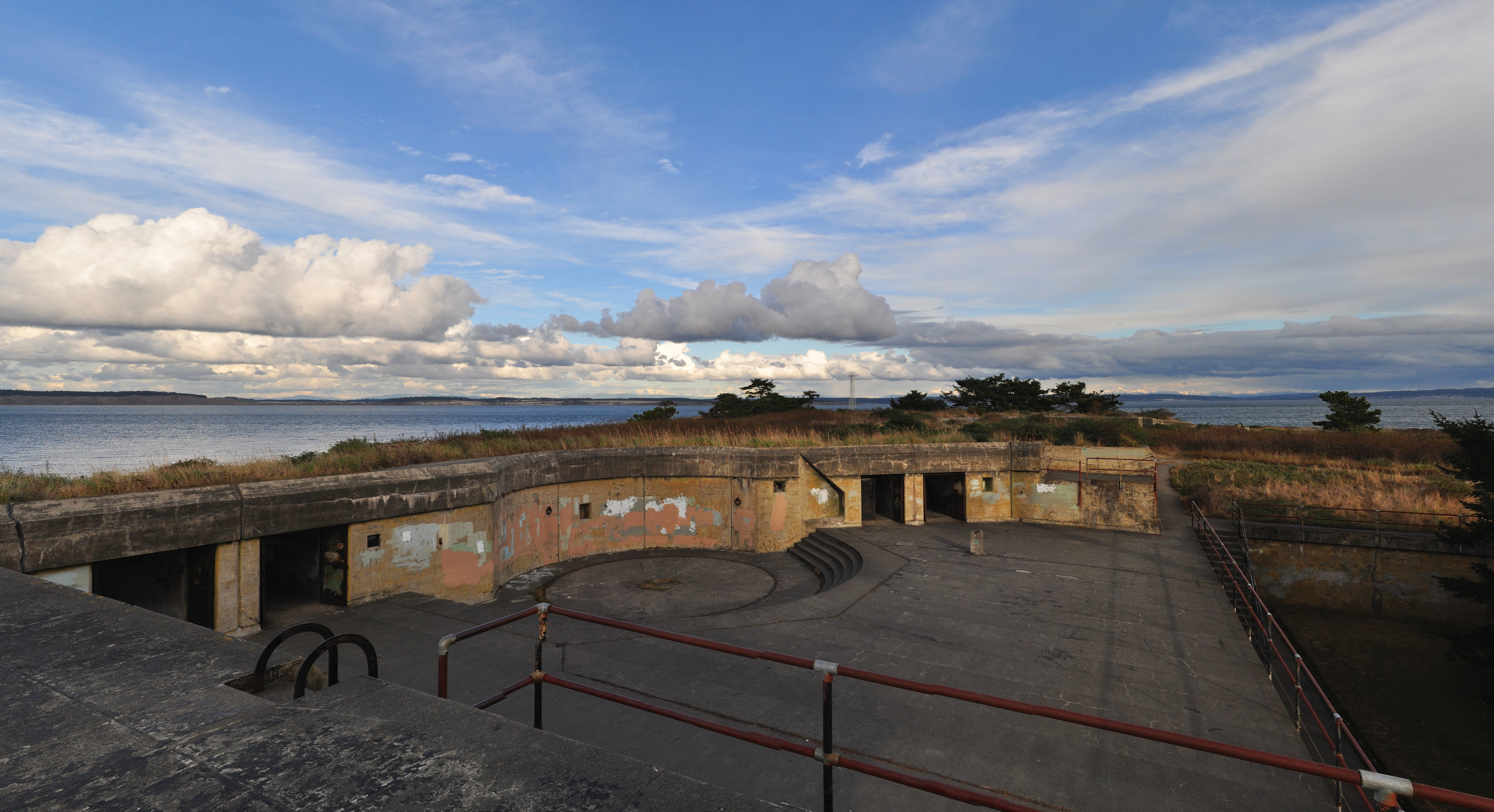 Panoramic view, Gun Position 2, Battery Kinzie (shore defense battery), Fort Worden, Port Townsend, Washington. This image was created with Hugin.